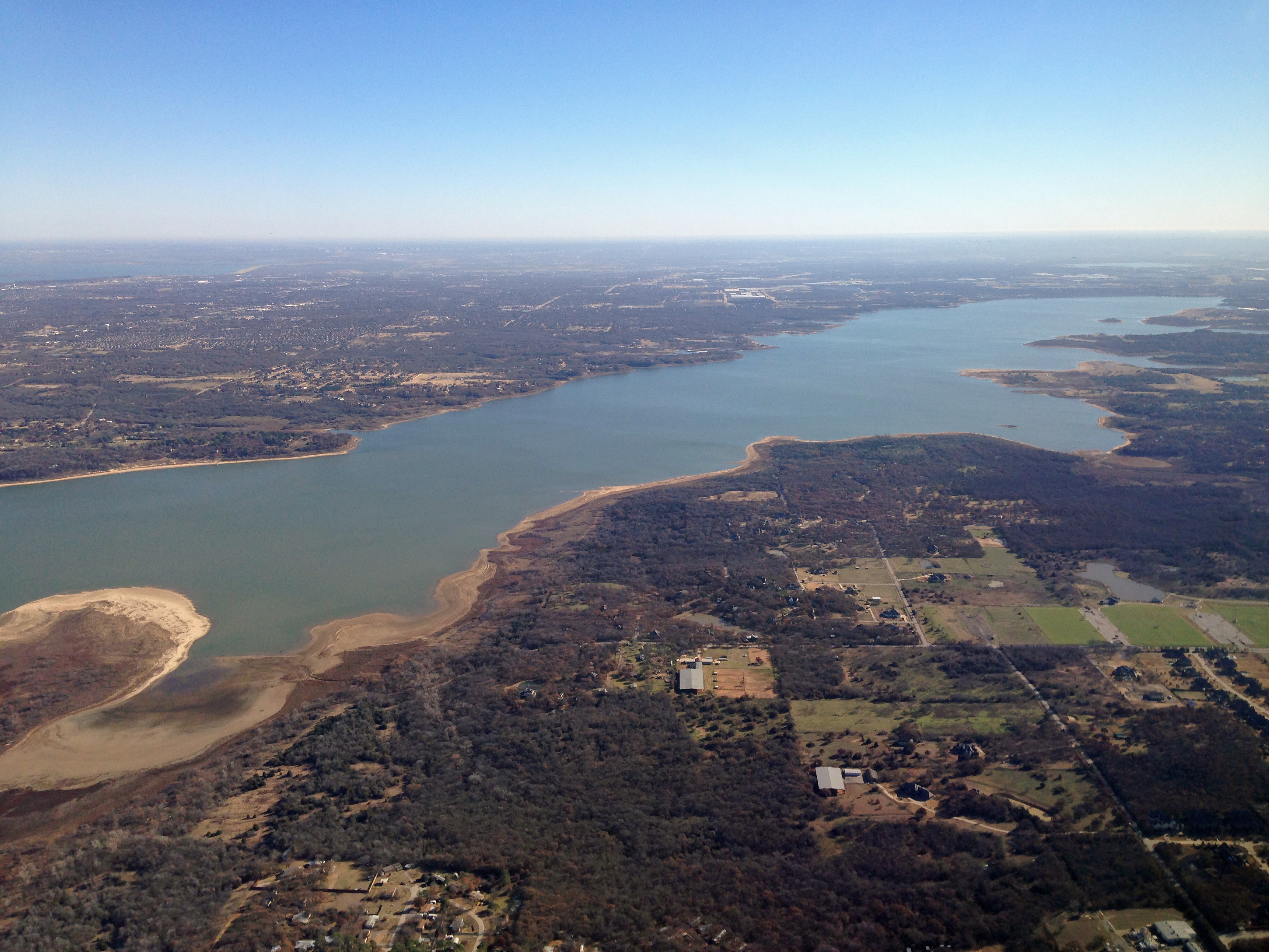 Grapevine Lake, Texas viewed from aboard an American Airlines flight from Lubbock International Airport to Dallas-Forth Worth International Airport.